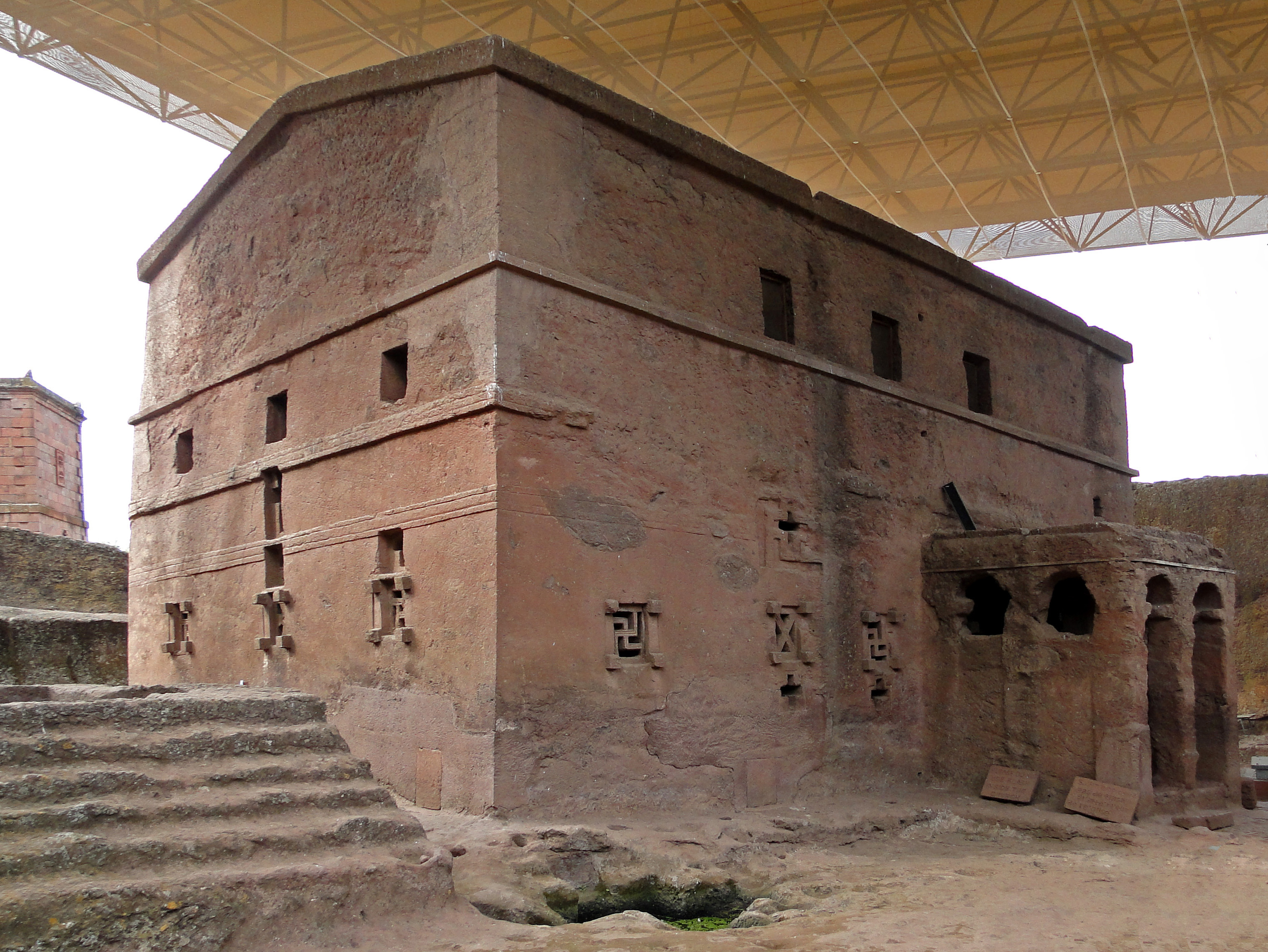 Bete Maryam, Lalibela, Ethiopia